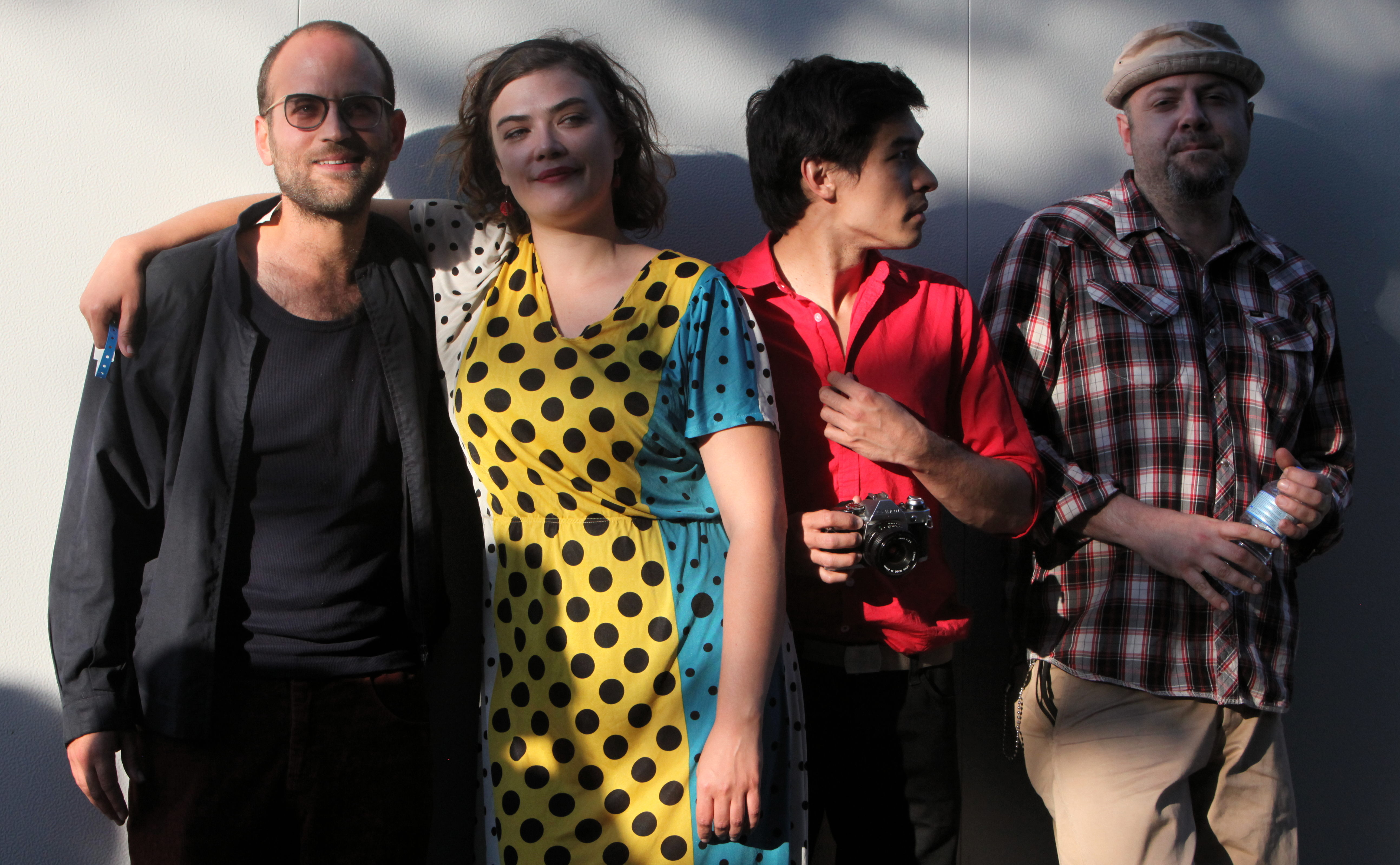 Moriarty at the Eurockéennes de Belfort 2011 The making of this document was supported by Wikimedia CH. (Submit your project!) For all the files concerned, please see the category Supported by Wikimedia CH.